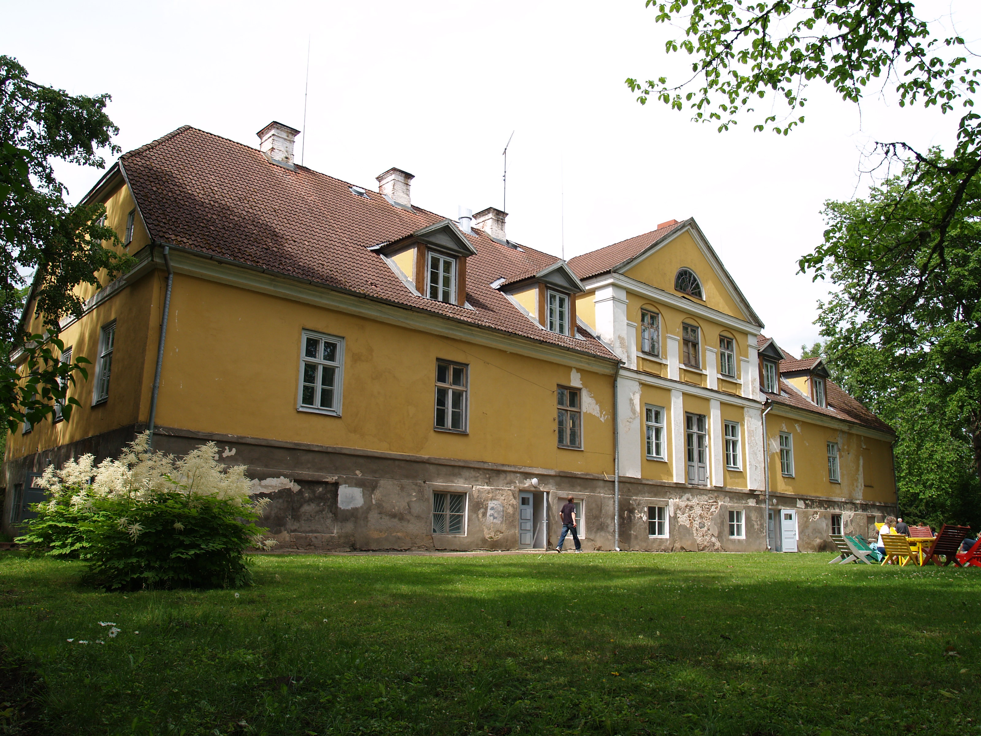 Lahmuse manor house. Today part of Lahmuse school. Back-view.